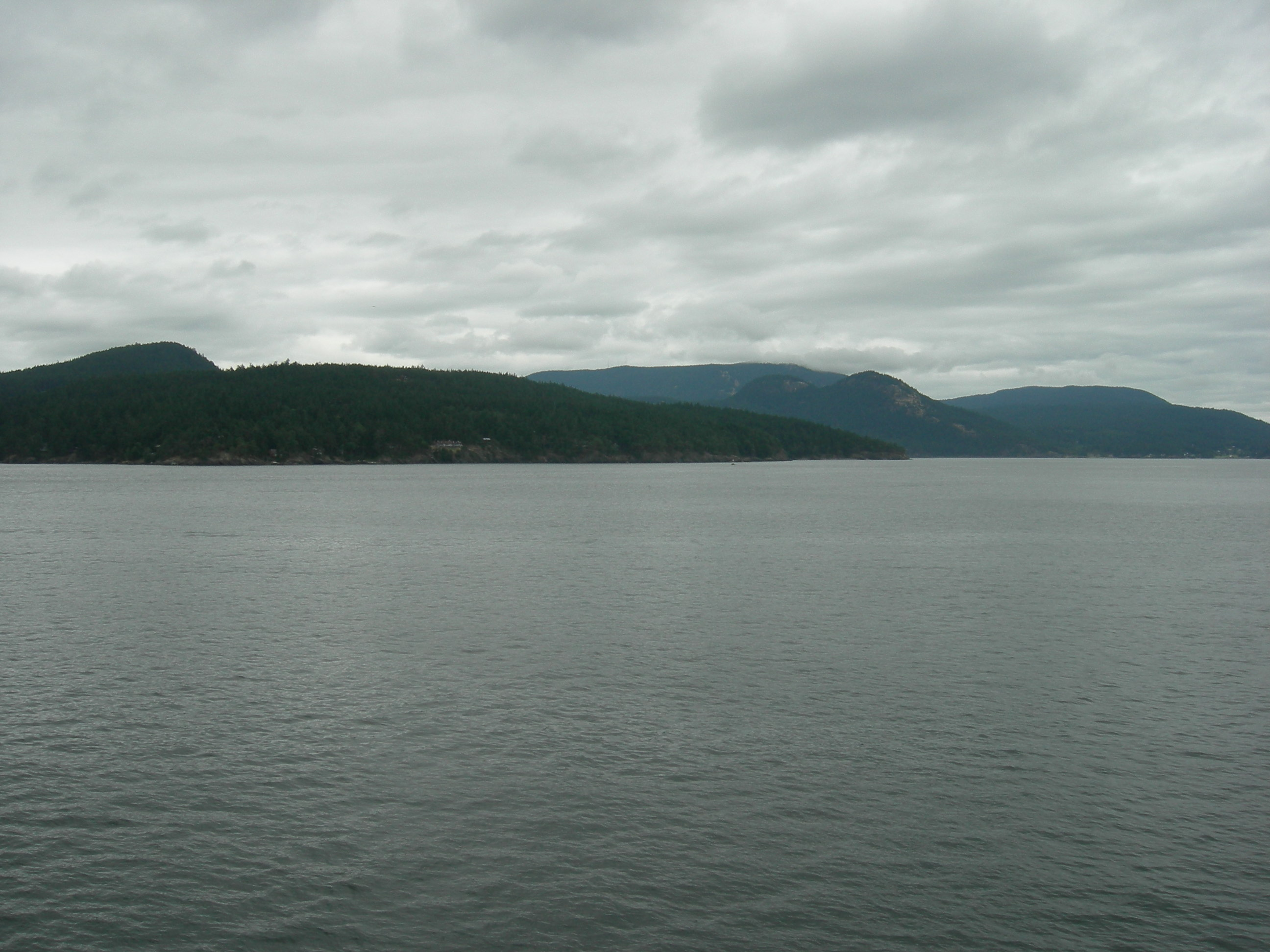 Looking toward Orcas Island's Mount Constitution (in Moran State Park) from the southwest, from a Washington State Ferry bound from Shaw Island to Lopez Island.